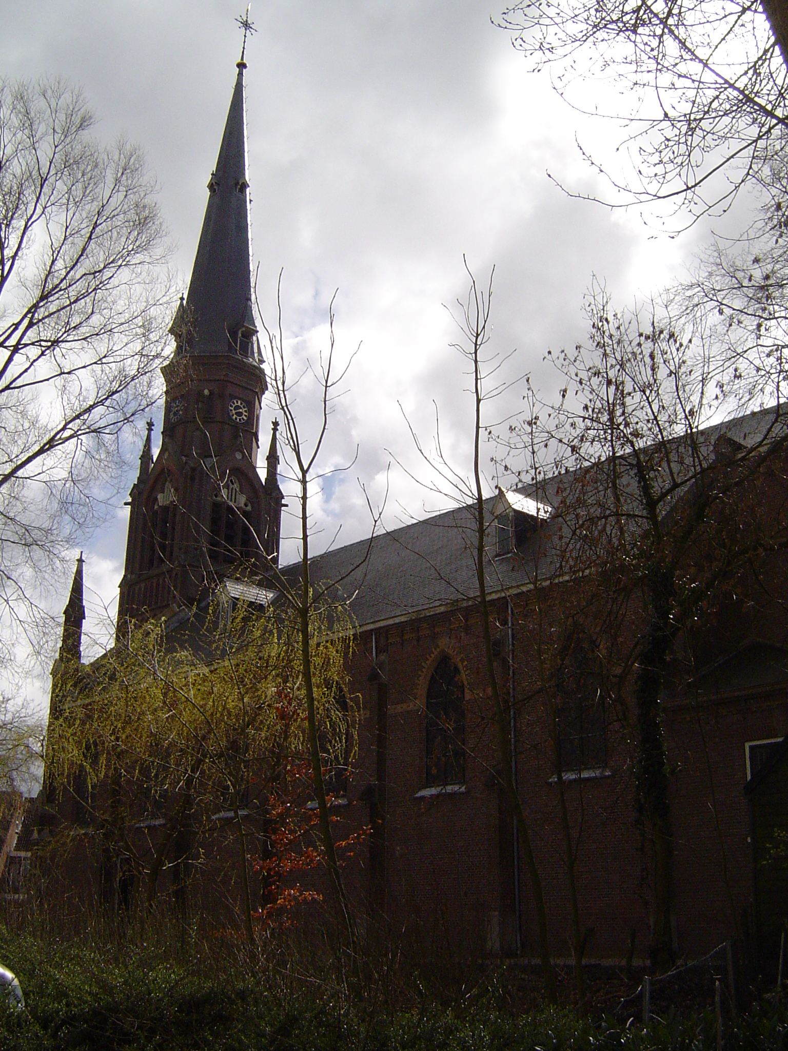 Nicolaaskerk, Nieuwveen - The Netherlands